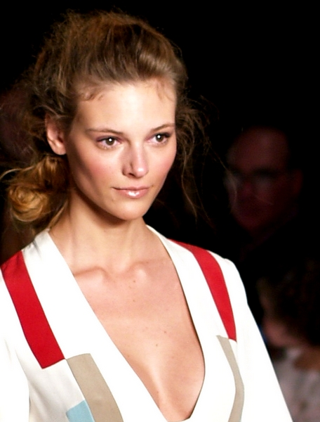 Fabiana Semprebom modeling in Cynthia Rowley spring 2007 show, New York Fashion Week.